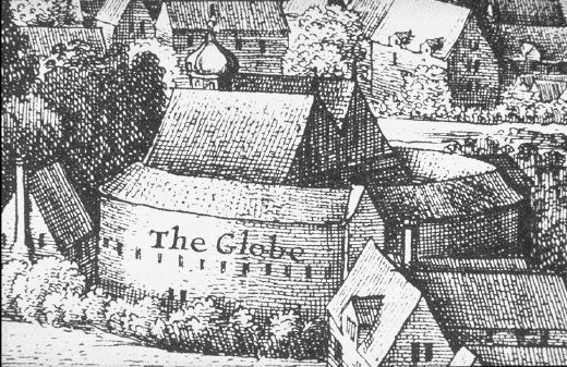 The Old Globe theatre — a print of the original theatre in London. Created in 1642 by Wenceslas Hollar for his Long View of London. The label "The Globe" has been superimposed; in the original drawing, the building was mistakenly labelled "beere baiting".